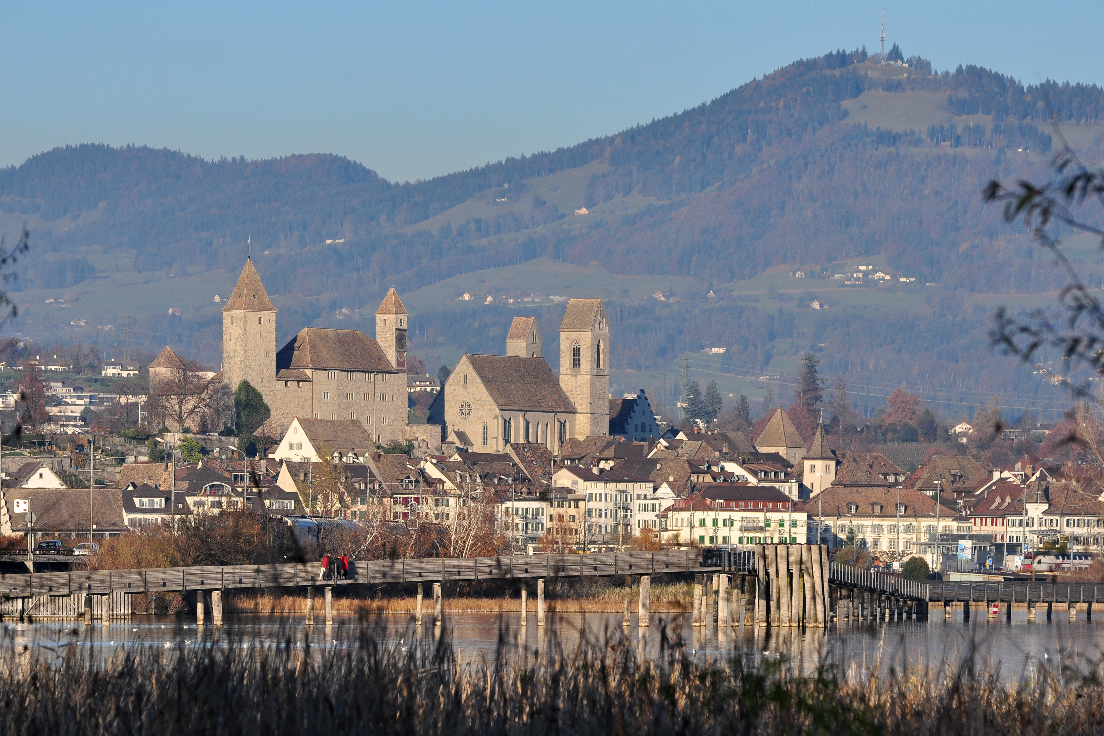 Rapperswil (Switzerland), as seen from Holzbrücke between Rapperswil and Hurden, crossing Obersee (upper Lake Zurich), Seedamm to the left, Bachtel mountain in the background.